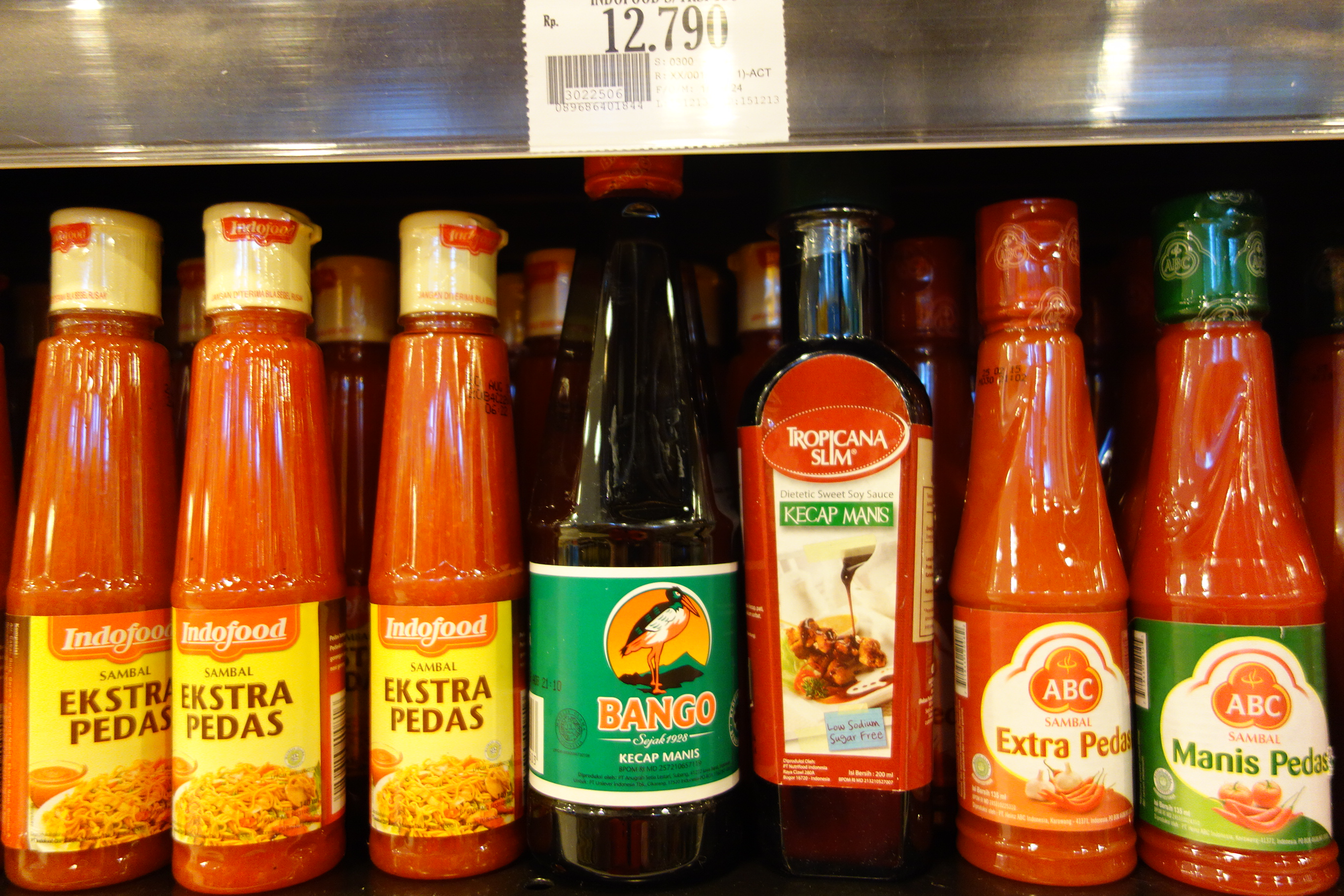 Traditional Indonesian sauces in a foodstore